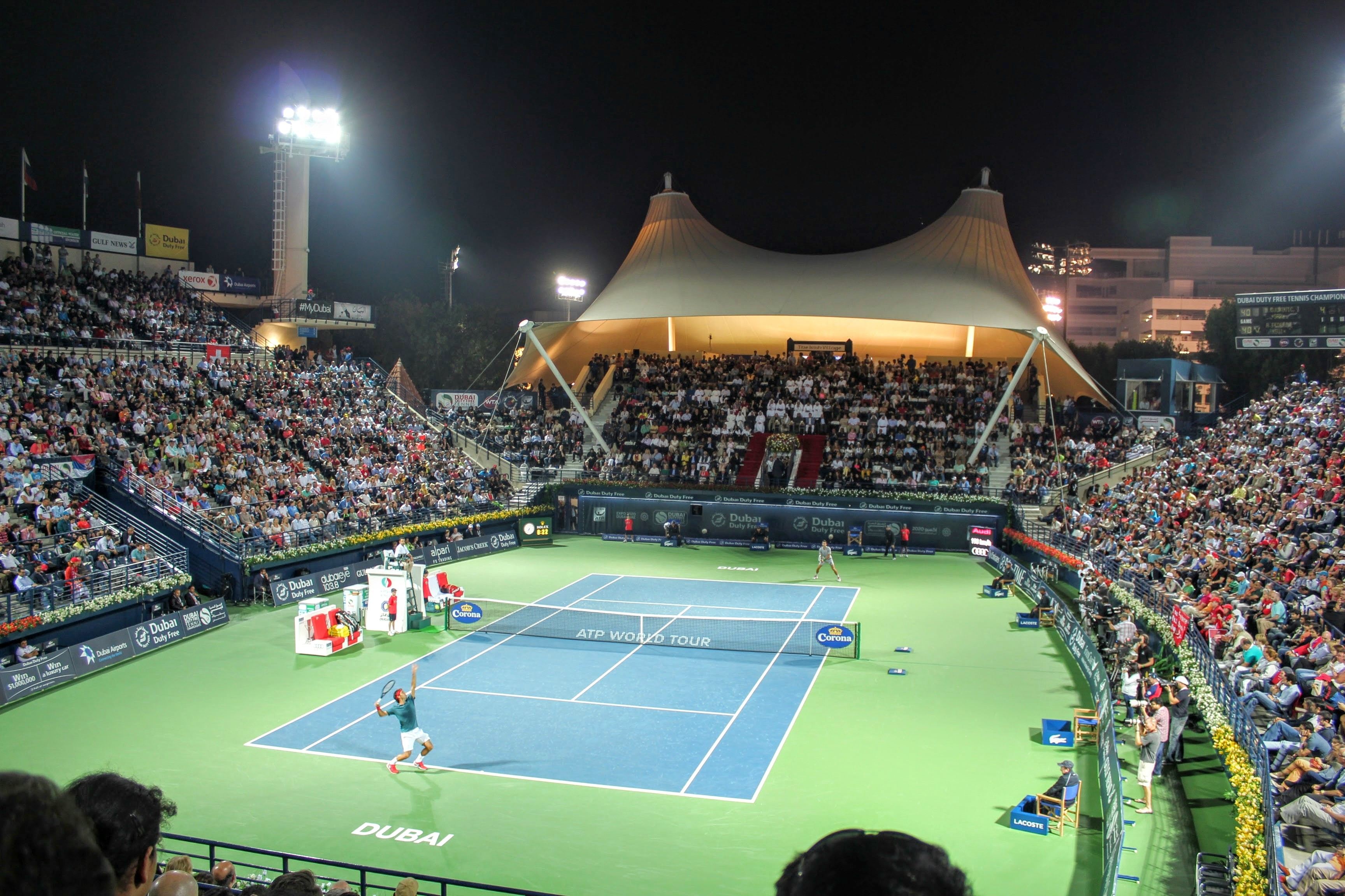 The 2014 Dubai Tennis Open late evening Semifinals, with Roger Federer and Novak Djokovic. Federer won the match and went on to win the 2014 Dubai Tennis Championships.